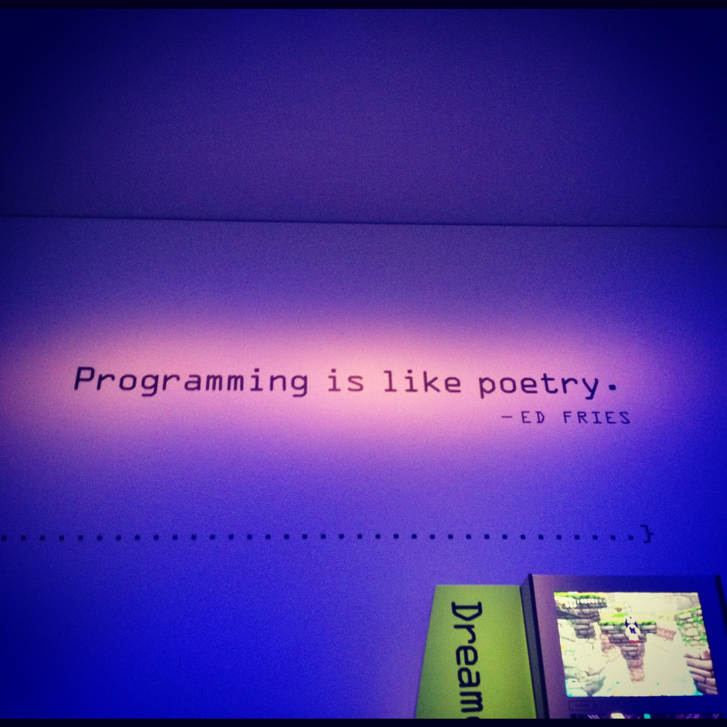 The Art of Video Games exhibition by the Smithsonian American Art Museum, Washington, D.C. “ Programming is like poetry ”